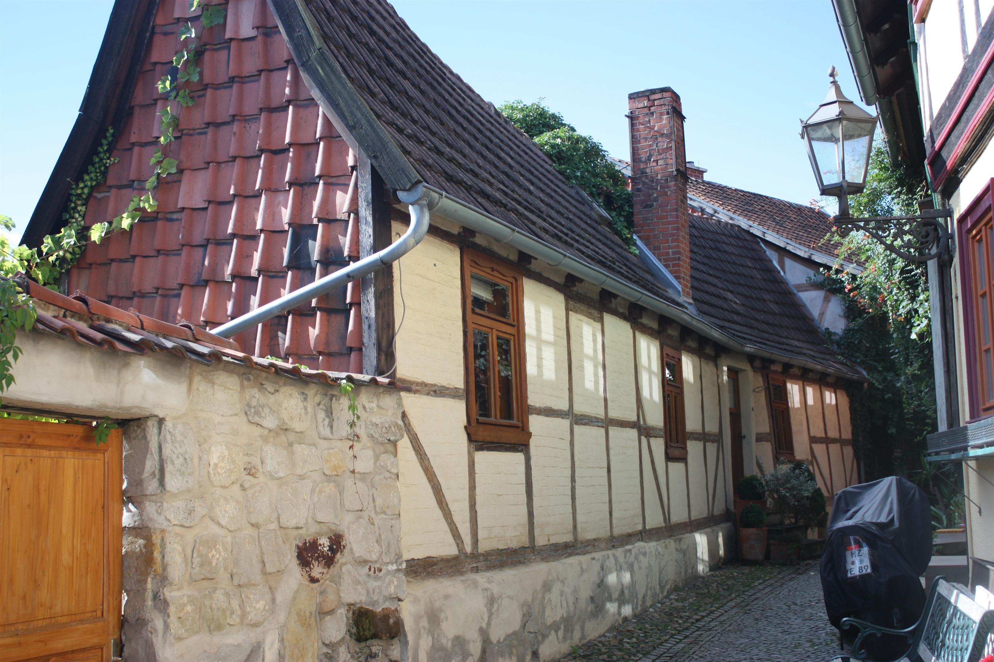 This is a photograph of an architectural monument.It is on the list of cultural monuments of Quedlinburg Quedlinburg, Schloßberg 32